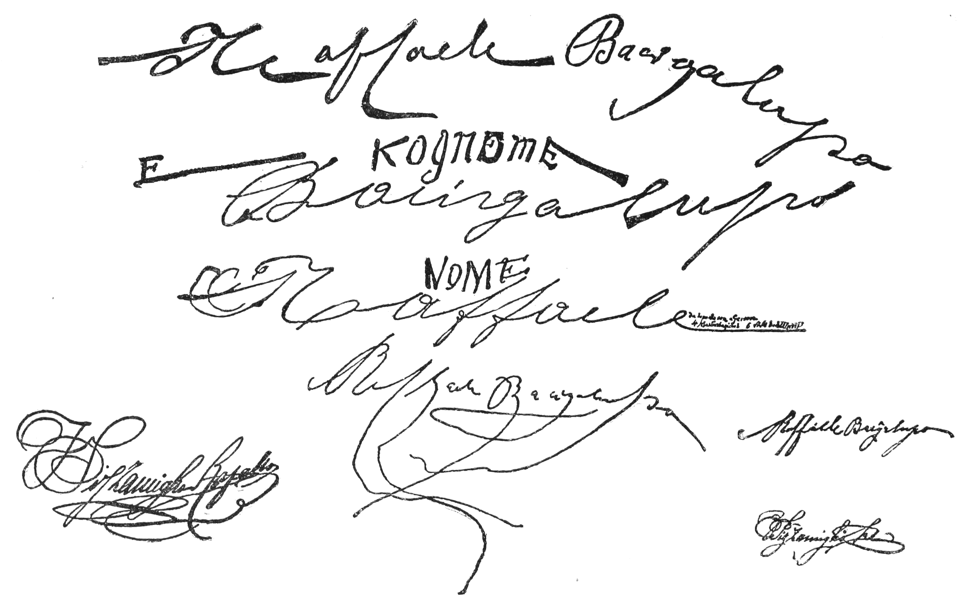 Macro and micrographic writing by the same epileptic